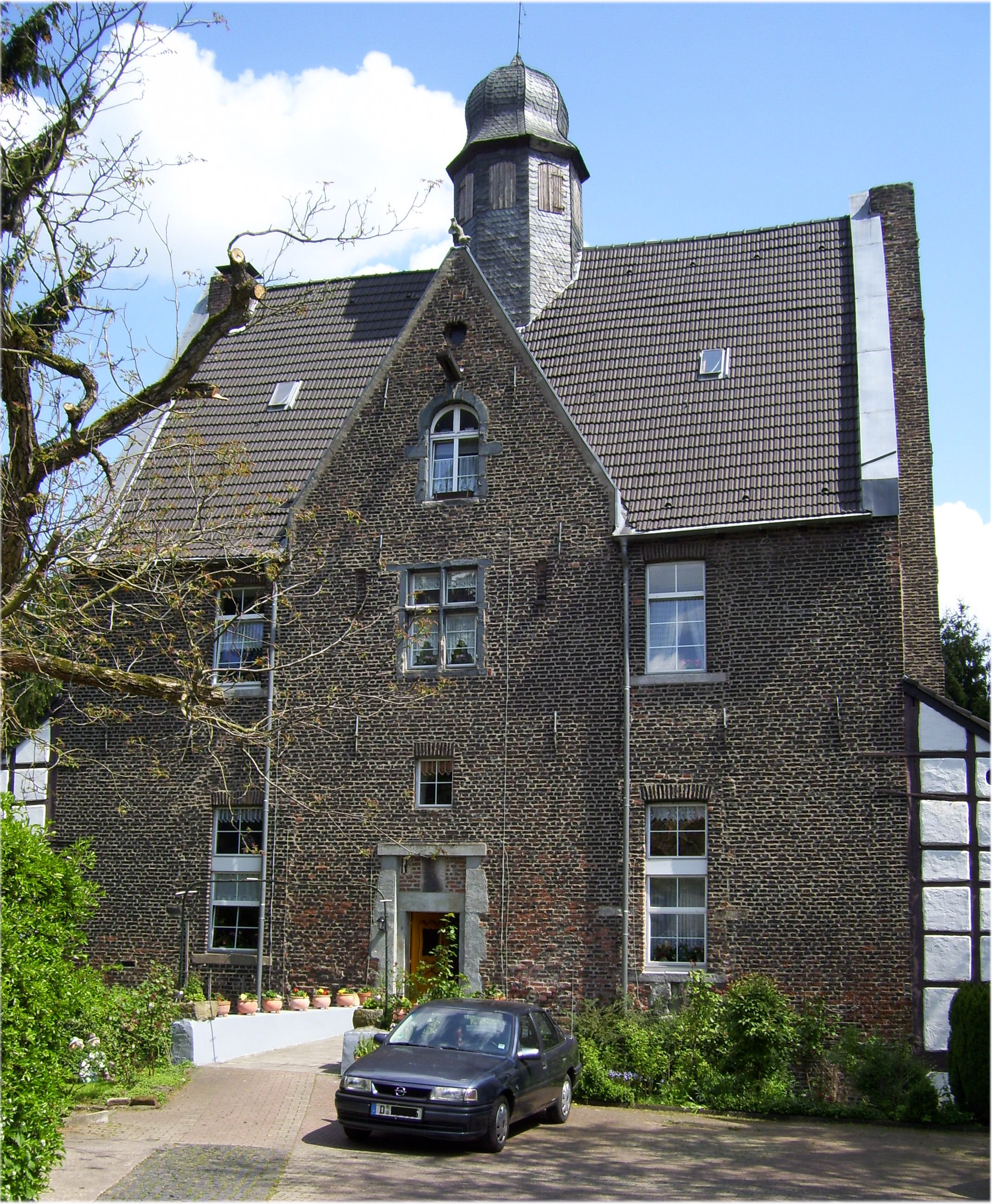 View from the front of the Quadenhof